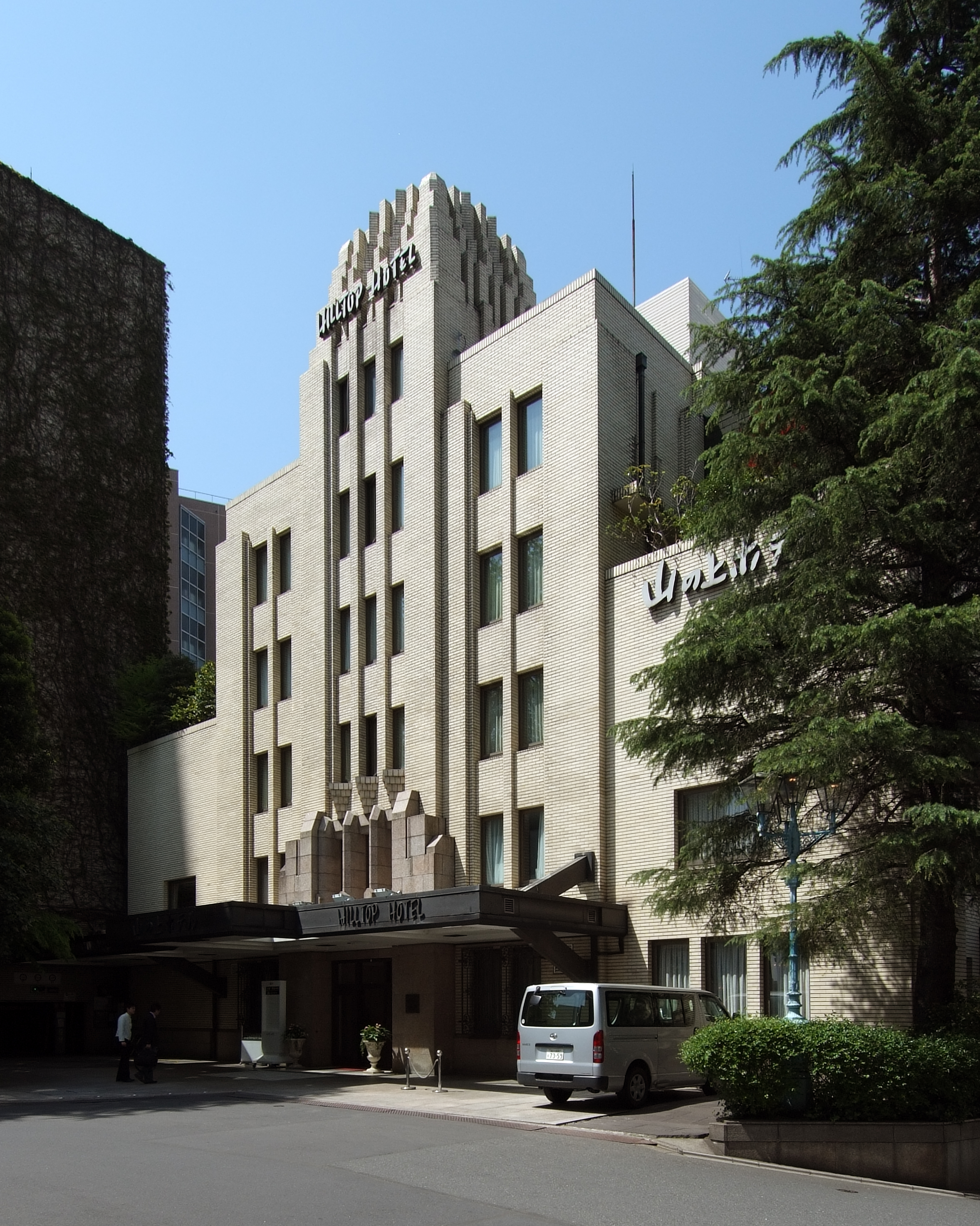 Hilltop Hotel (山の上ホテル Yamanoue Hotel) is a hotel located at Kanda-Surugadai, Chiyoda, Tokyo, Japan.